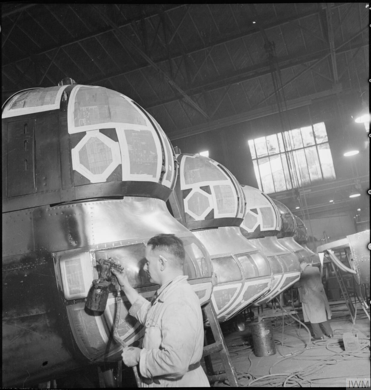 Birth of a Bomber- Aircraft Production in Britain, 1942 Spray painters at work in the paint shop of the Handley Page factory at Cricklewood. Paper has been taped over the windows of the front turret, cockpit and bomb aimer's compartment of this Halifax to protect the glass from the paint.